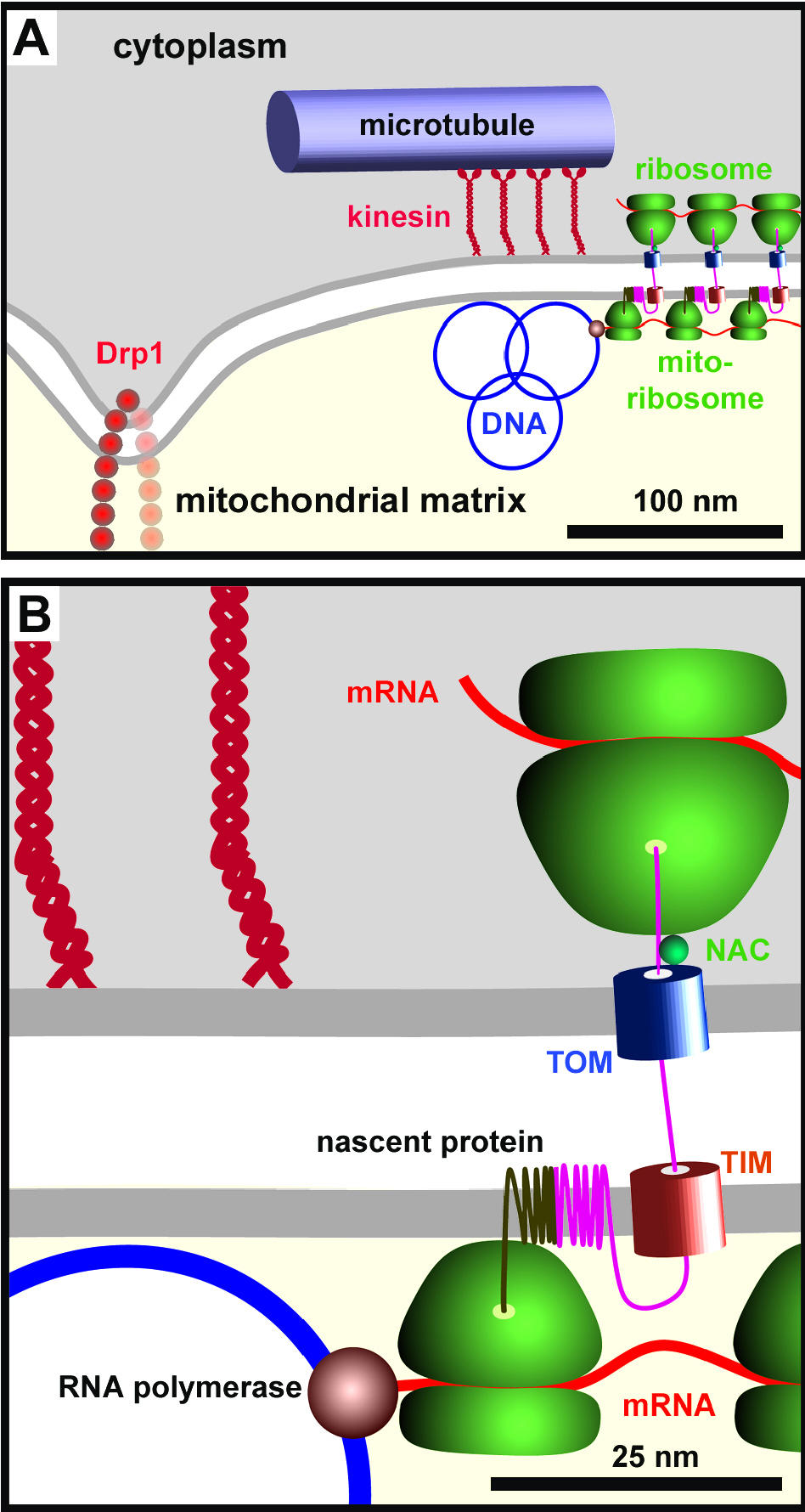 A cartoon illustrating the components studied here (drawn roughly to scale) that lie within the sphere of influence of mtDNA. (A) A cluster of approximately eight mitochondrial genomes (see Table 1; only three are shown) are tethered through the mitochondrial membranes (see Figure 2) to kinesin and cytoplasmic microtubular network (see Figure 3); tethering restricts motion (see Figure 4), but the molecular mechanism is unknown. A cluster is usually found in a thin part of the mitochondrion poor in YFP-cytochrome oxidase (Figure 1G), and mitochondria generally split near Drp1 foci lying ~300 nm away (Figure 5). (B) A high-power view of a region in (A). Nascent mtRNA is translated cotranscriptionally by mitochondrial ribosomes bound both to the polymerase [40] and the inner mitochondrial membrane [57]; completed mRNAs (not shown) are also translated during most of their lifetime in this region (Figure 7J). The cytoplasmic translation machinery that makes nuclear-encoded proteins destined for the mitochondrion – marked by a ribosomal protein (S6) and a chaperone (NAC) – lie immediately on the other side of the mitochondrial membrane (Figure 8A,8B,8C,8D,8E,8F,8G,8H). Here, a cytoplasmic peptide is being made and imported through the translocases in the outer and inner membranes (TOM and TIM; TOM is marked by Tom22; Figure 8I,8J,8K,8L) where it will assemble with a mitochondrial-encoded peptide in the inner mitochondrial membrane. The close proximity of the two sets of machinery on each side of the membranes ensures efficient assembly of mitochondrial complexes containing proteins encoded by nuclear and mitochondrial genomes. Iborra et al. BMC Biology 2004 2:9